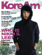 Magazine cover of KoreAm from March 2007; Nikki S. Lee